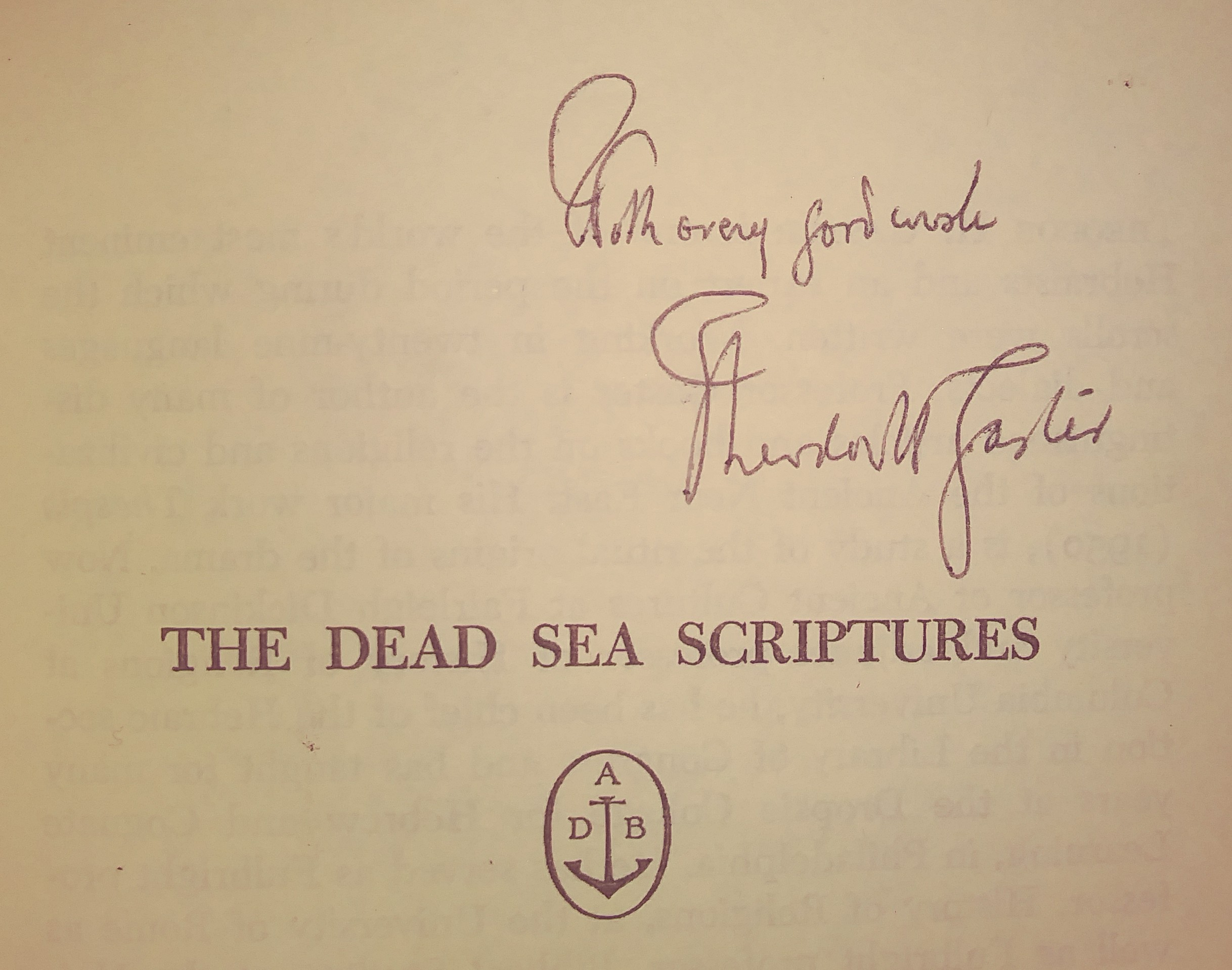 Inscription by Theodor Gaster to Marjorie Housepian Dobkin on a copy of his translation of The Dead Sea Scriptures: "With every good wish Theodor Gaster"